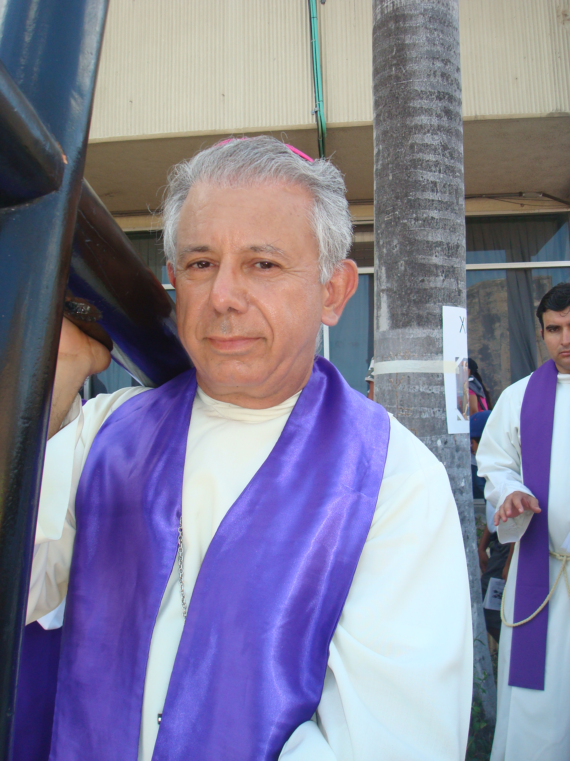 Ramón Castro Castro, Diözesanbischof von Campeche während der Osterprozession im April 2010.